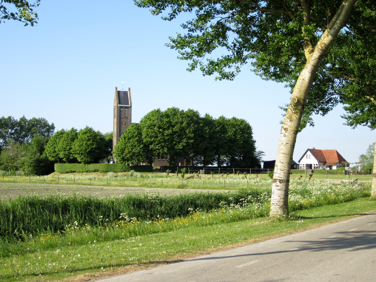 The church of Slappeterp, Friesland, the Netherlands, viewed from a distance.